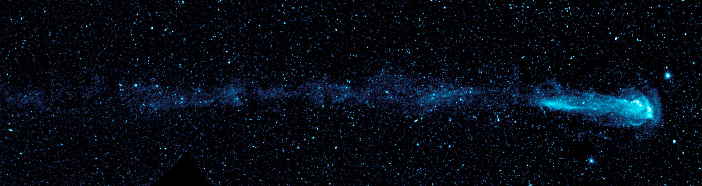 Mira A is a red giant variable star in the constellation Cetus. This ultraviolet-wavelength image mosaic, taken by NASA's GALEX, shows a comet-like "tail" stretching 13 light year across space. The "tail" consists of hydrogen gas blown off of the star, with the material at the furthest end of the "tail" having been emitted about 30,000 years ago. The tail-like configuration of the emitted material appears to result from Mira's uncommonly high speed (about 130 km/s (81 mi/s)) relative to the Milky Way galaxy's ambient gas. Mira itself is seen as a small white dot inside a blue bulb.